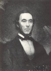 John Wise, ballonist